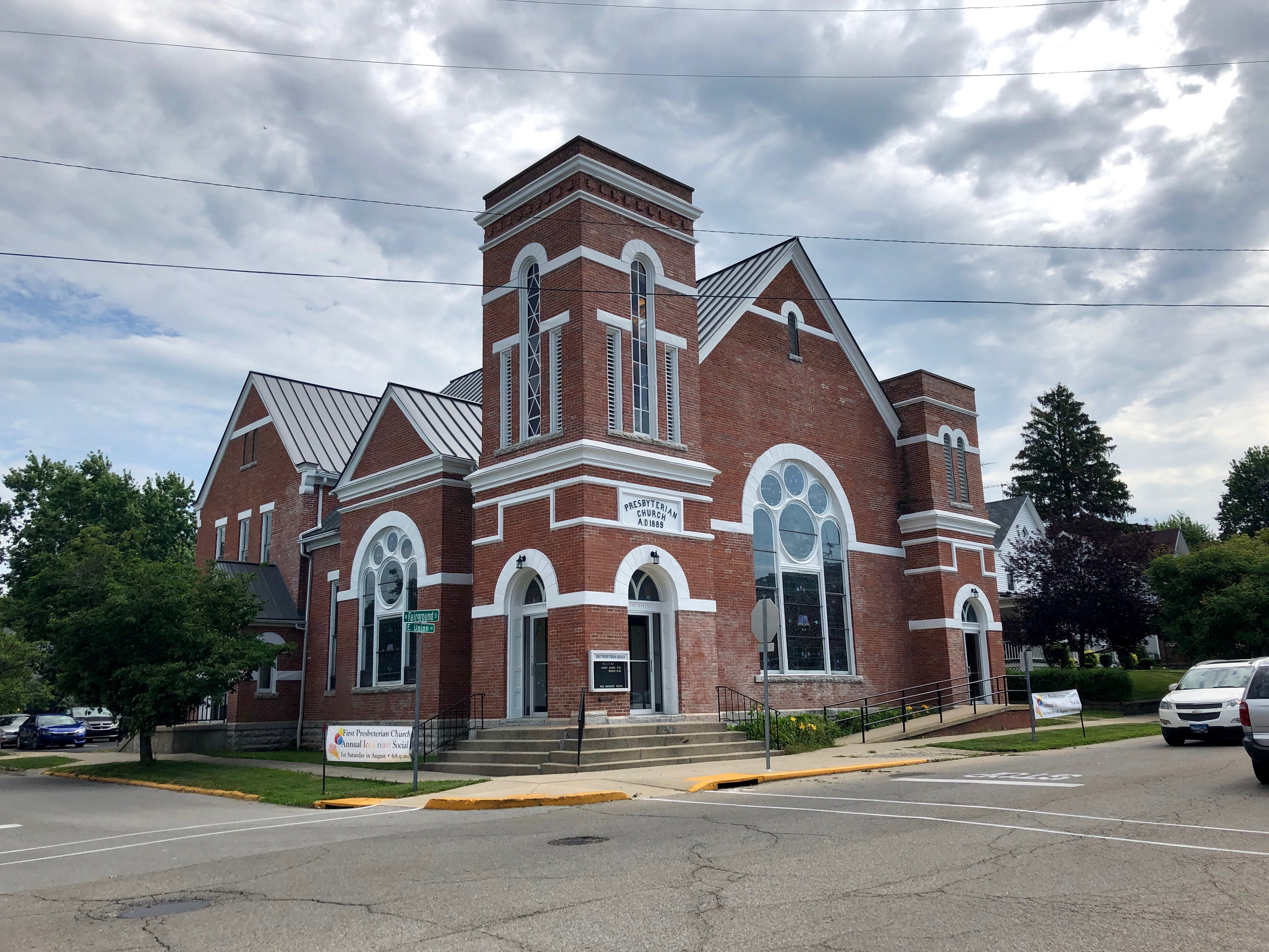 Liberty Presbyterian Church, Old Liberty High School, Liberty, IN